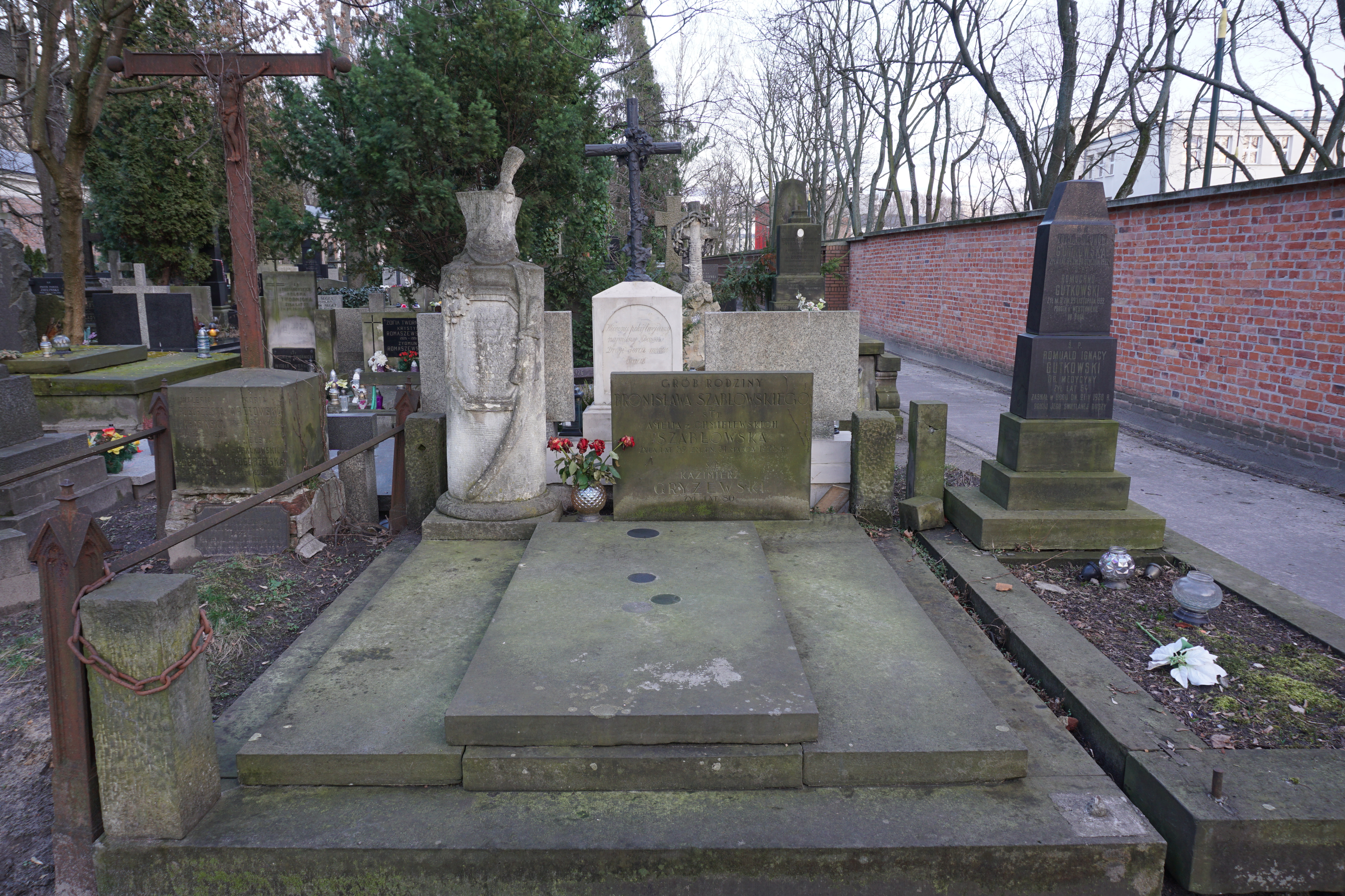 The grave of Kazimierz Gryżewski at the Powązki Cemetery (section 171, row 6, grave 25, 26)